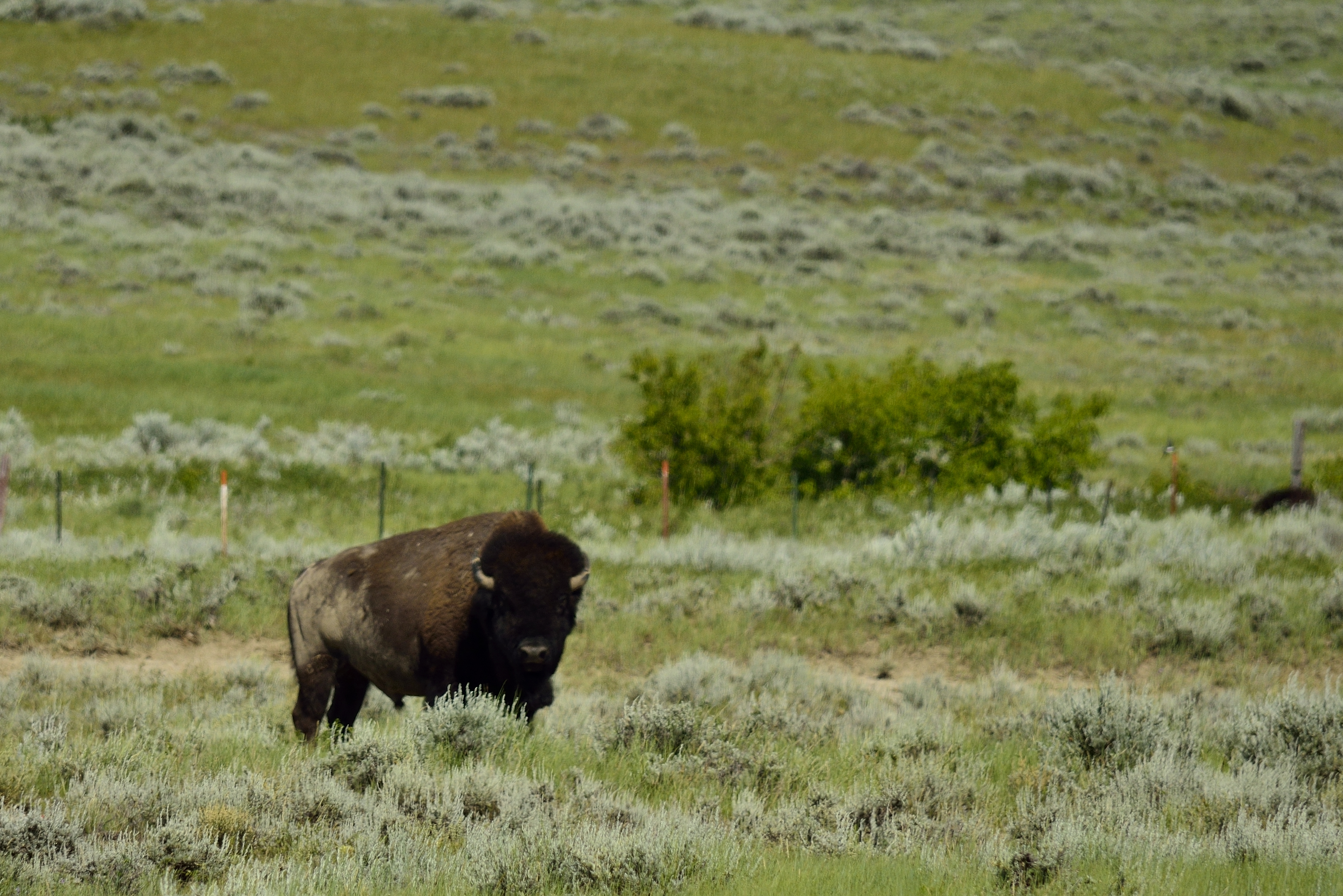 Lone purebred bison from the Elk Island National Park, Canada, on the American Prairie Reserve.